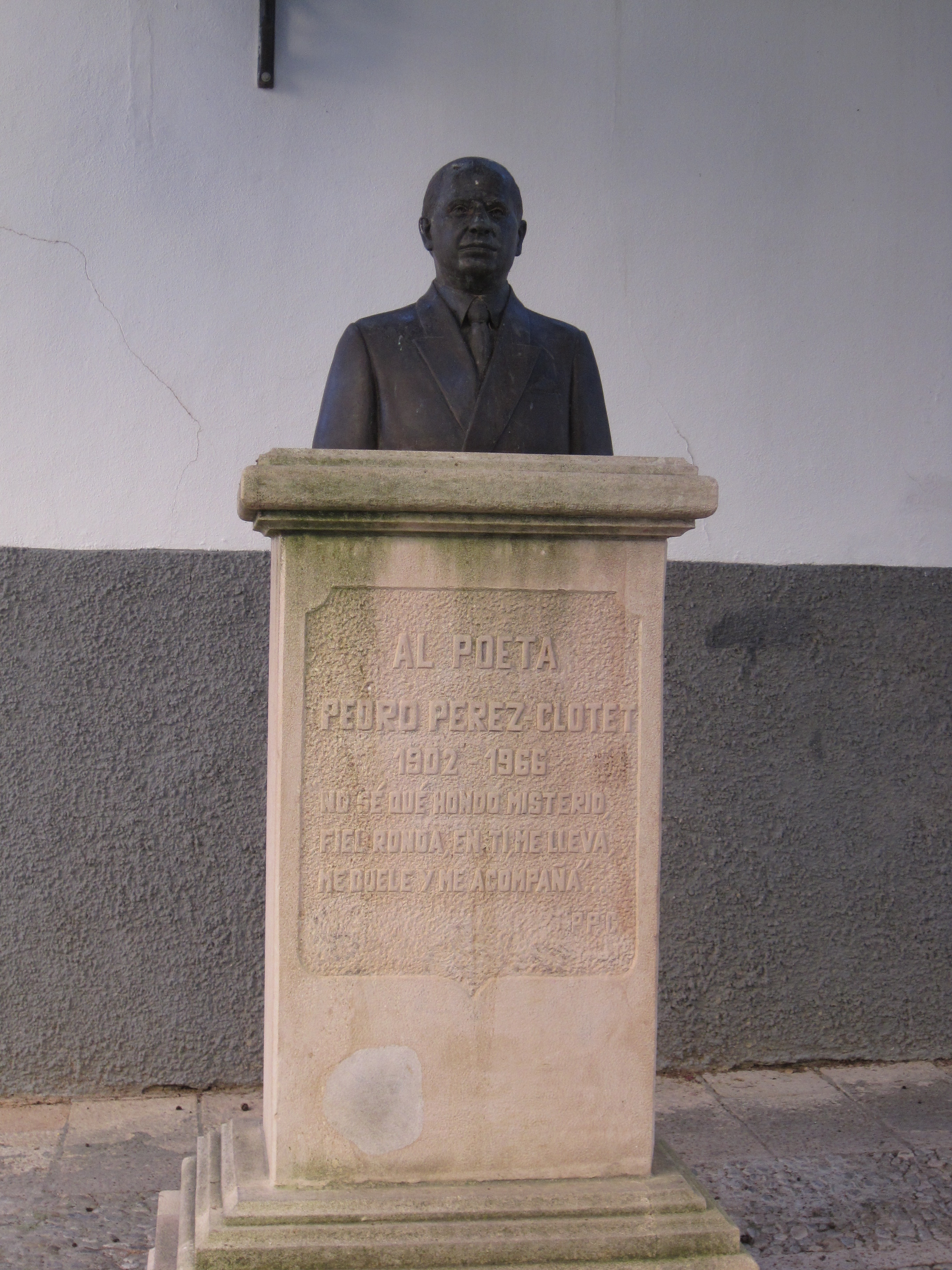 Pedro Pérez Clotet statue, Ronda, Spain